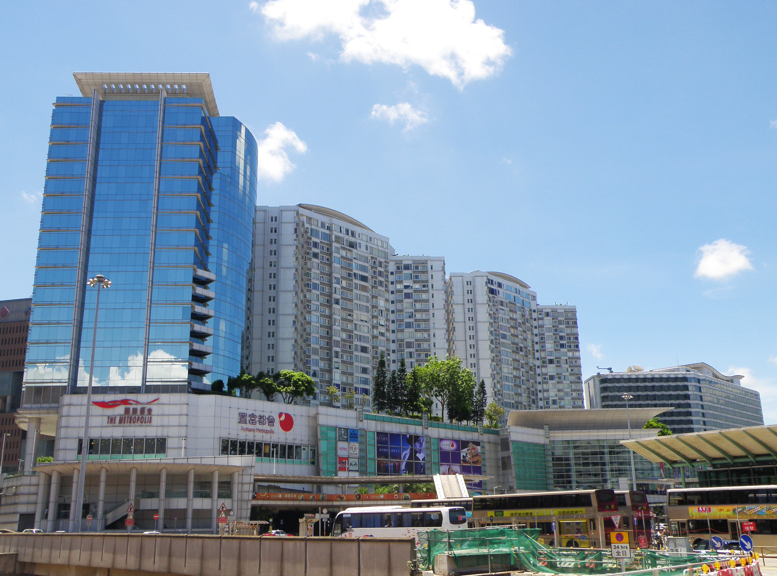 Fortune Metropolis in Hung Hom, Hong Kong.